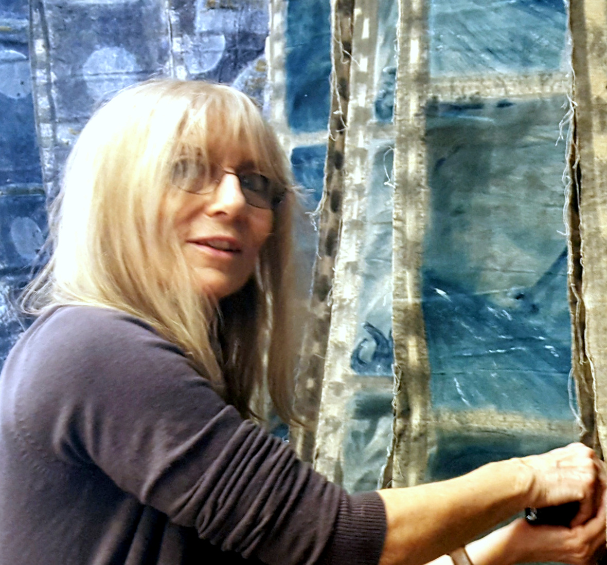 Kliclo artiste plasticienne - Installation Films